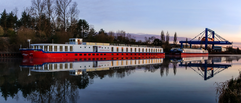 Compulsory break of the ships in the Elbe-Havel Canal near Parey (Elbe) due to COVID-19 pandemic 2020